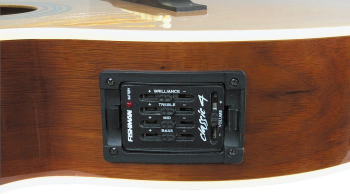 Fishman Classic4 Preamp